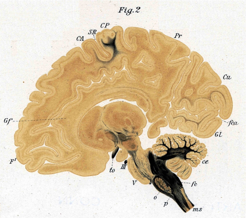 The first area of the cerebral cortex to myelinate - nissl stain parasaggital section of a 7 month old human fetus (Flechsig 1921)